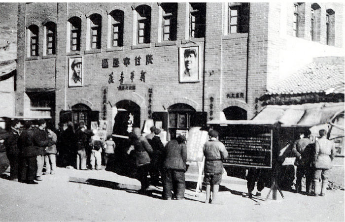 Xinhua Store in Yan'an Shaan-Gan-Ning in 1942 中文（中国大陆）: 1942年，陕甘宁边区延安南关街新华书店